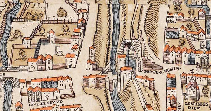 St-Denis gate on the plan of Truschet and Hoyau (1550).